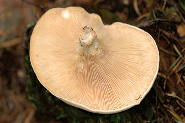 Lactarius sp. from Commanster, Belgian High Ardennes .